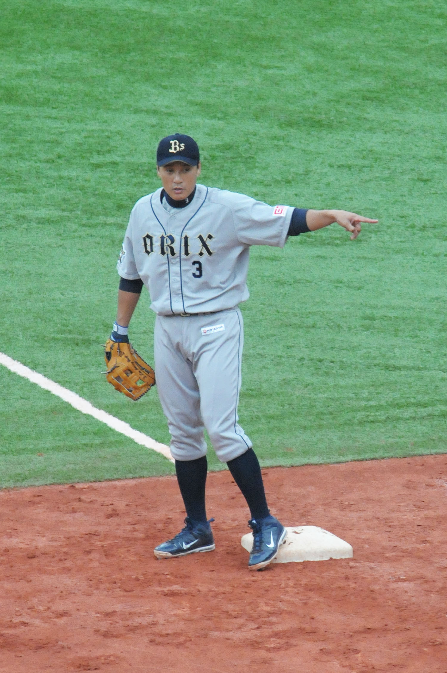 Seung-Yeop Lee, infielder of the Orix Buffaloes, at Chiba Marine Stadium.